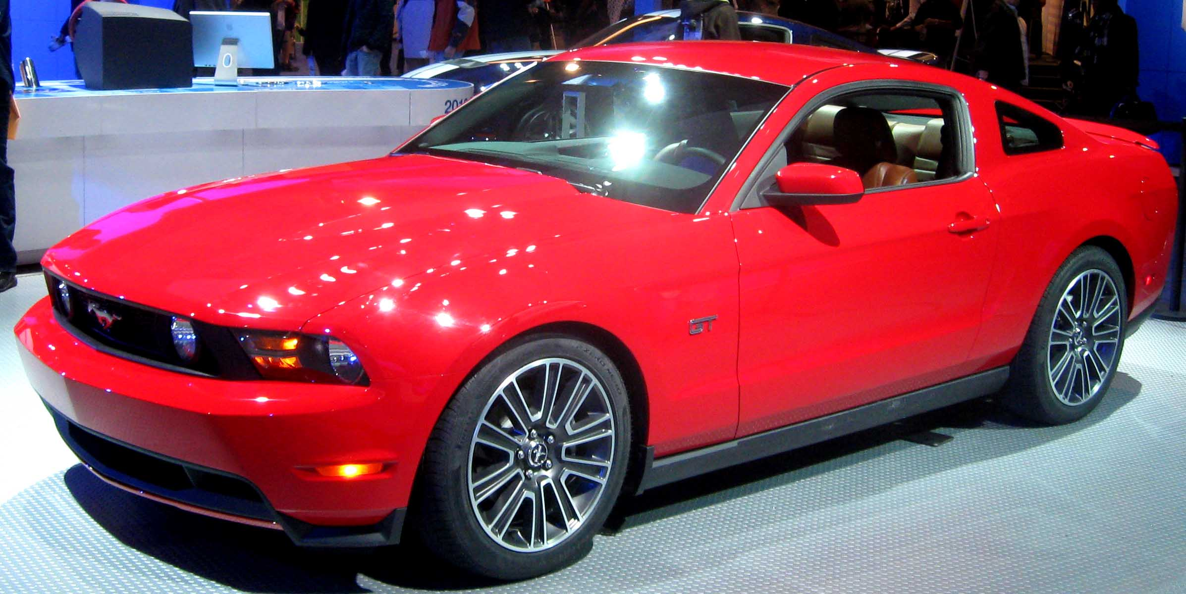 2010 Ford Mustang photographed at the 2009 Washington DC Auto Show.